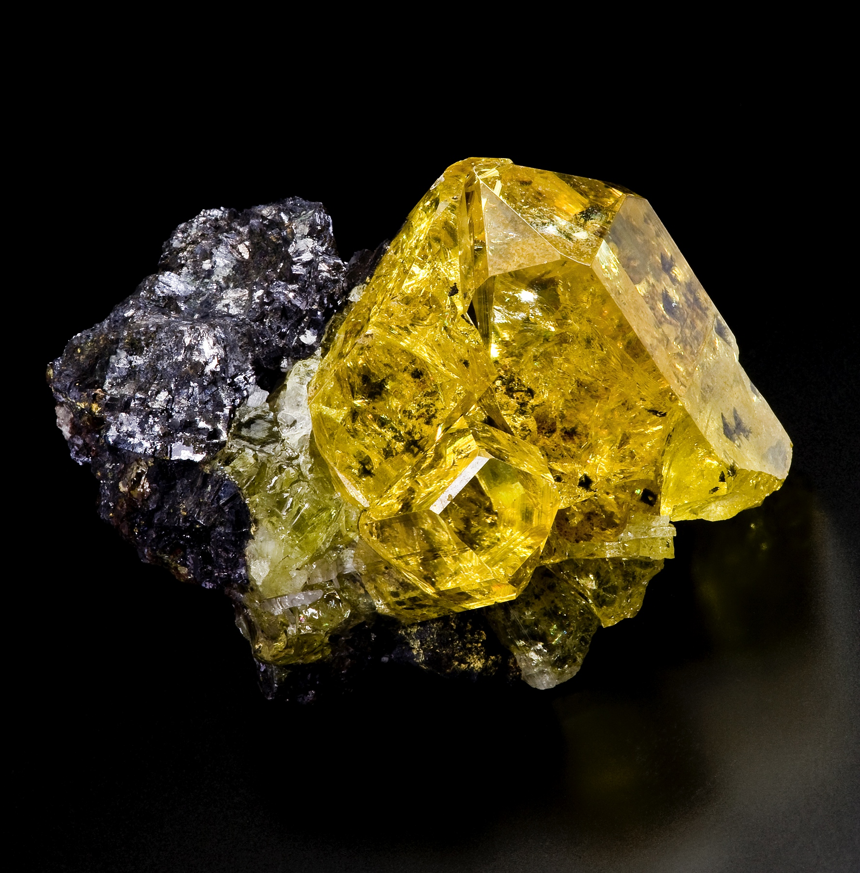 Anglesite Locality: Touissit, Touissit District, Oujda-Angad Province, Oriental Region, Morocco (Locality at ) Size: miniature, 4.5 x 4.2 x 2.6 cm Anglesite A stunning gem anglesite crystal with mirrorlike, shocking lustre and total gemminess and transparency. The photo is good, but even the skills of a top photographer do not do this glowing jewel justice. It really IS that good, in person. I have owned this fine miniature 3 times now, in back-and-forth dealing over the last 11 years since first buying it when the John Barlow collection was sold in 1998. It is featured in his book (page 314), in the chapter on major African locales. I lusted for this specimen when I first saw it in person and each time, I am stunned anew when I hold it again. It is simply that striking, in a way that the photo fails to do justice to. It sold back to me in each of two previous cases when it no longer fit with where a collector was going in style or size, no complaint about quality! I now have it back again, from the Tom Hall collection. Tom is a longtime collector, recently retired from first-chair violin for the Chicago Symphony Orchestra, who since the 1960s has specialized in colorful miniatures and small cabinet pieces of high quality, trying to obtain the best he could in this size range from major, classic finds. His collection was always small but filled with choice beauties. This piece, to me, really epitomizes the old material from Toussit, and I remember first seeing it in the John Barlow collection book and thinking the photo was exaggerated even then. It was not overdone and if anything the piece really IS better in person, and has always been one of my favorites from that massive collection, even amidst so many more expensive treasures he owned. Joe Budd photo. Ex-John Barlow, No. 2544, pictured in The John Barlow Collection.